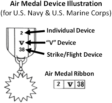 Graphic of the U.S. Military's Air Medal and the arrangement of its devices for U.S. Navy and U.S. Marine Corps awardees.